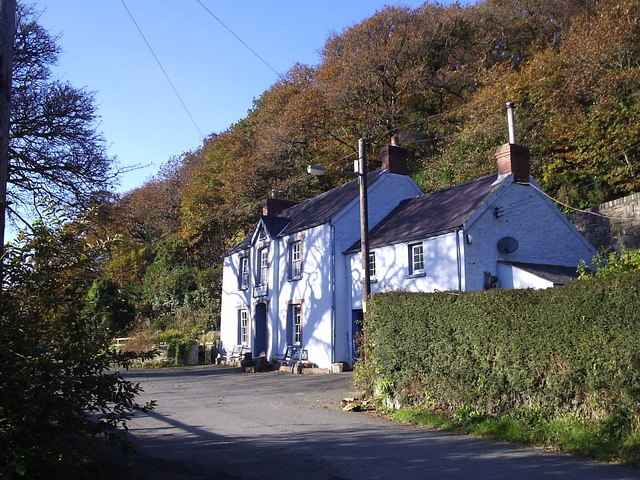 The Dyffryn Arms, Pontfaen, a.k.a. Bessie's. This deservedly celebrated little basic pub in the Gwaun Valley has been kept by Bessie Davies for over 35 years: she still serves beer with a jug from the barrel. It has been voted one of Wales' top attractions. You never know who you will meet here!